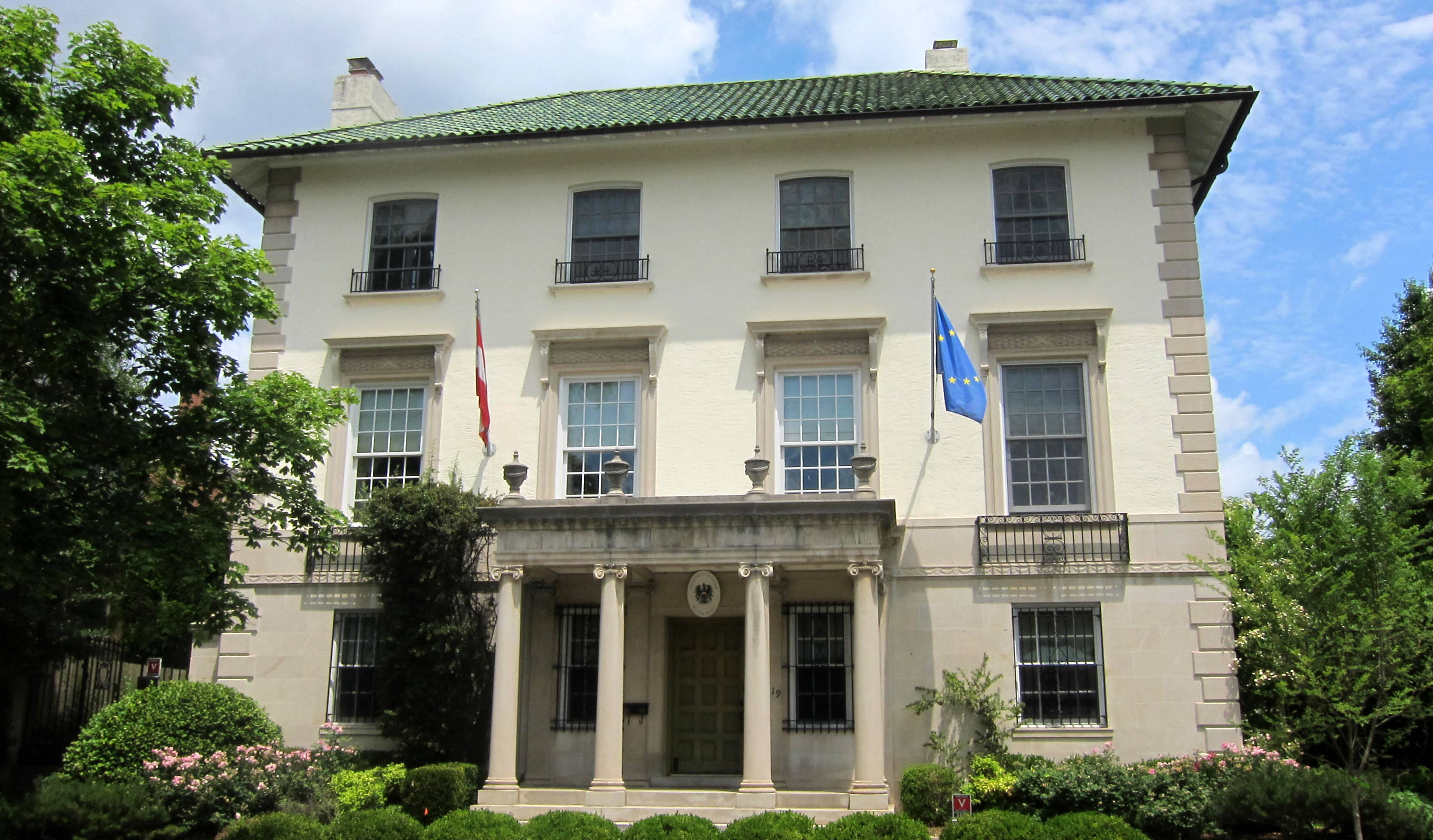 The Austrian ambassador's residence located at 2419 Wyoming Avenue, N.W., in the Sheridan-Kalorama neighborhood of Washington, D.C. The Mediterranean Revival style home was built in 1926 to the designs of architect Appleton P. Clark. The building is designated as contributing property to the Sheridan-Kalorama Historic District, listed on the National Register of Historic Places in 1989.